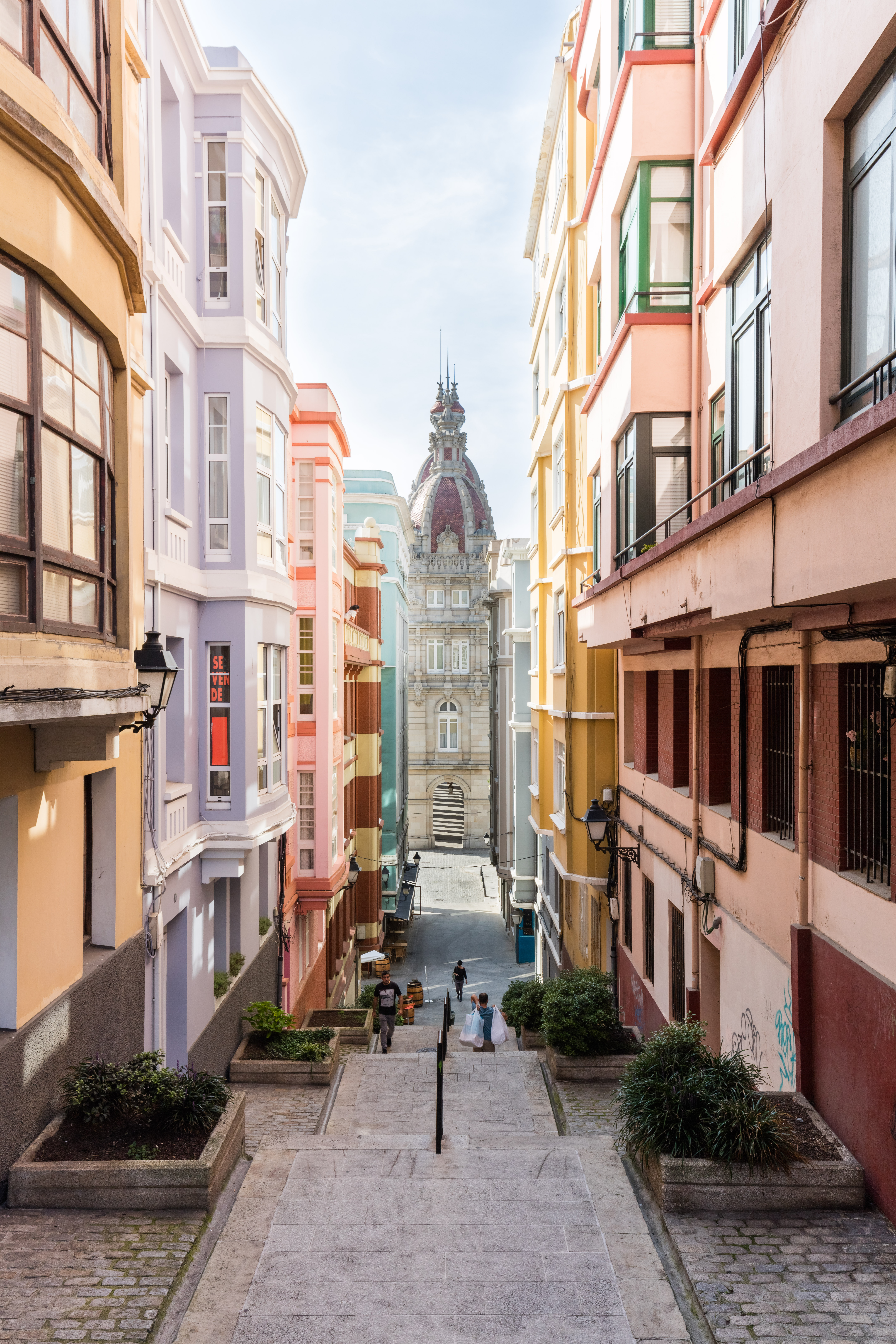 City hall, La Coruña, Spain